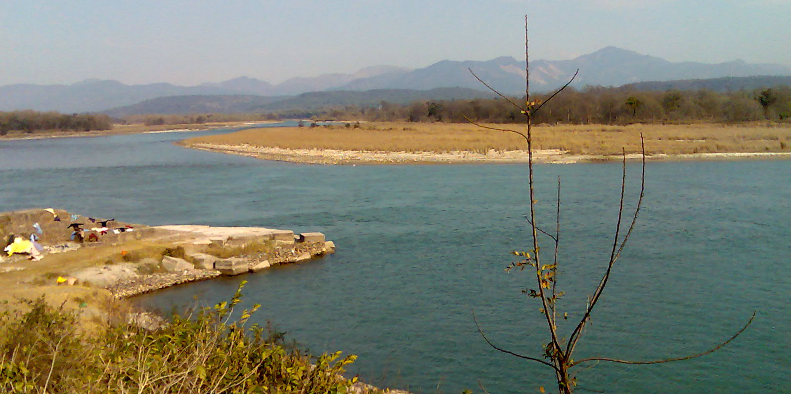 This is a rarely visited part of Haridwar, the main Ganga river, before the Bhimgoda barrage, and over looking an island inhabited by migratory birds. You can also see signs of an ancient port, when the river was navigated up to Rishikesh.